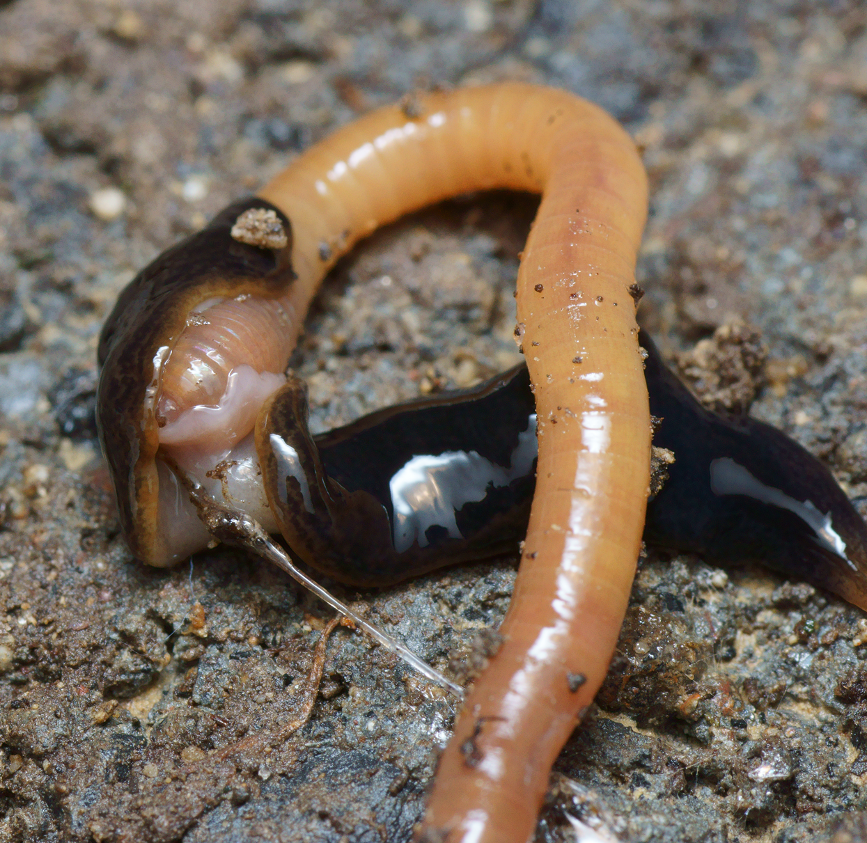 Figure 6 from Article Obama nungara, dark form feeding on an earthworm. The everted pharynx can be clearly seen partly enveloping the head of the earthworm (unidentified species). Specimen MNHN JL092 from Montauban, Tarn-et-Garonne. Photo by Pierre Gros.